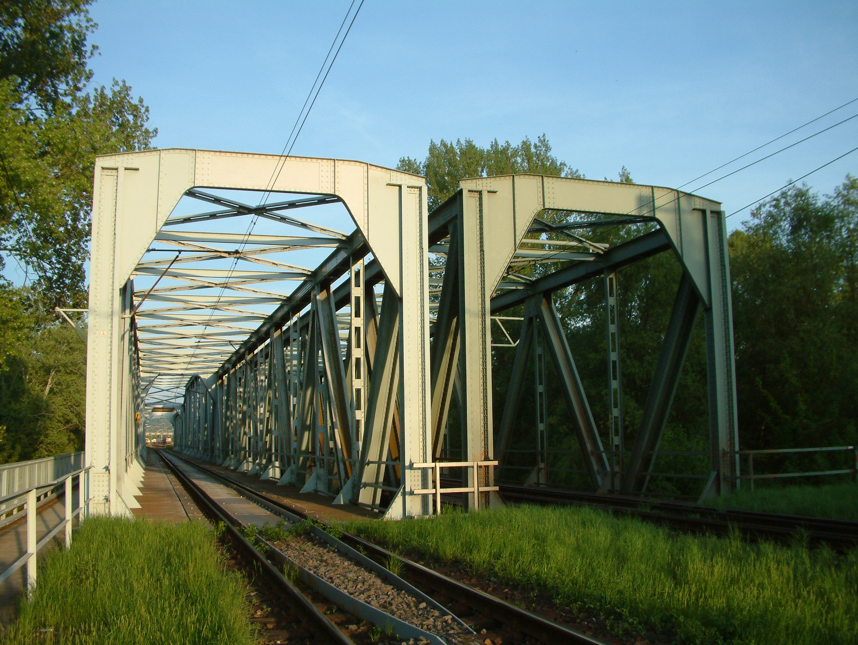 Szob railway bridge over Ipoly River (Hungarian-Slovakian border)